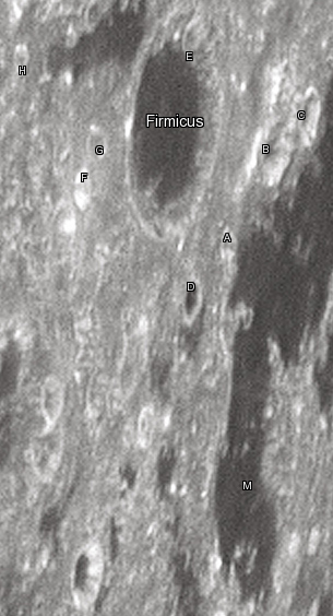 Firmicus lunar crater as seen from Earth with satellite craters labeled